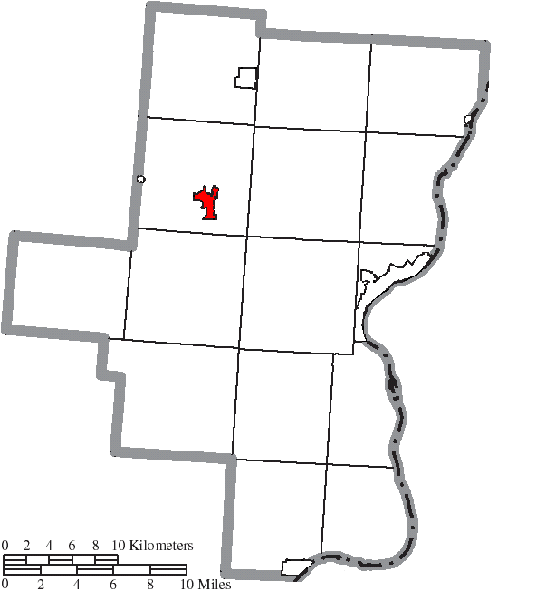 Map of the municipal and township boundaries of Gallia County, Ohio, United States, as of the 2000 census, with the location of the village of Rio Grande highlighted. Township borders are shown only in unincorporated areas in order to differentiate incorporated and unincorporated areas more clearly.